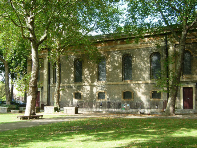 St John the Baptist, Hoxton, near to Shoreditch, Islington, Great Britain. St John the Baptist's church was built between 1822 and 1826 to serve the growing population of the area - creating a separate parish of Hoxton from what was previously Shoreditch. To this day the boundary between Hoxton and Shoreditch seems somewhat confused, not helped by the fact that this was for many years all part of the Borough of Shoreditch - now absorbed into Hackney (even though Hackney is definitely nowhere near here!).